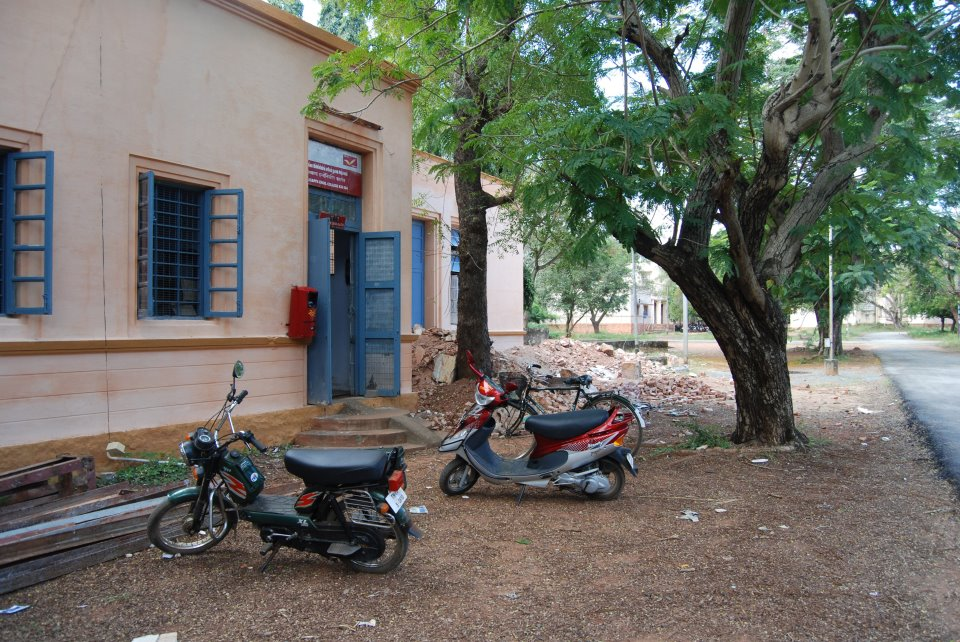 Accet College Post Office